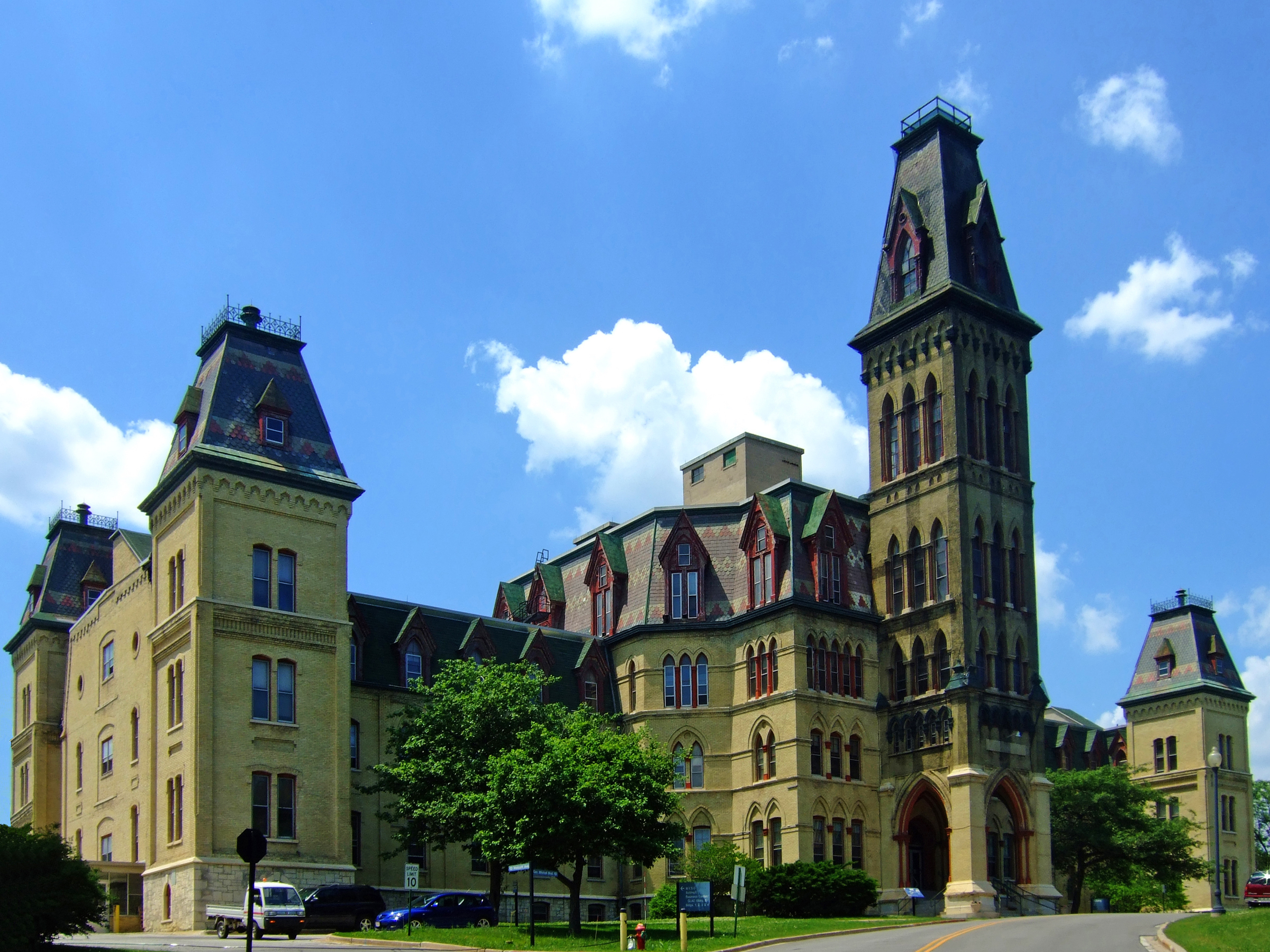 The National Soldiers Home in Wood, Wisconsin (later subsumed by Milwaukee), was designed by E. Townsend Mix and built in 1867-68 at a cost of $200,000. Its construction was based on an 1866 law that called for building homes for Civil War veterans. It provided space for nearly 1,000 vets plus a dining hall and administrative offices. It is surrounded by scenic grounds that were one of Milwaukee’s first parks.